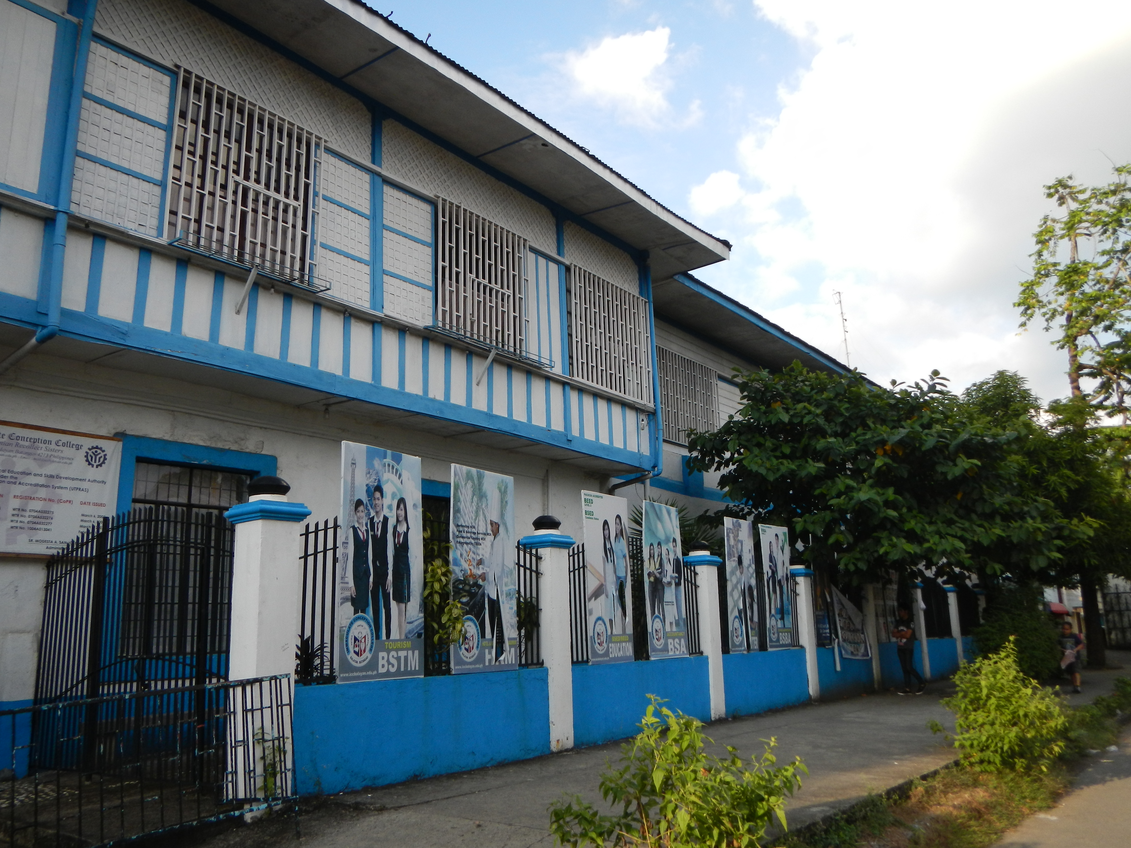 Upload Wizard photos - of the - Municipal Library, Immaculate Conception College, Simbahan ng Balayan, the Immaculate Conception Parish Church of Balayan - en, Balayan, Batangas, Philippines. NCCA NATIONAL HERITAGE SITE. The first church was built of light materials in 1579. The Jesuits built a stone church in 1749 and was probably replaced by the present church that was built after 1753. The church is one of the few in the Philippines whose construction was supervised by Filipino priests - belongs to the Roman Catholic Archdiocese of Lipa[1] Vicariate I: Vicariate of Saint Francis Xavier, Barangay 5, Centro, Town Proper, Jollibee, Rizal Monument, Andrés Bonifacio[2] monument, Dr. Galicano Apacible (June 25, 1864 – March 2, 1949) [3] at the Plaza, Park, beside McDonald's Heritage house, beside the Balayan Presidencia or Balayan Town Hall, Historic landmark, the Welcome Poblacion Balayan Arch, Balayan Multi-Purpose Covered Basketball Court, DILG office, Traffic management office, BSPCMA, Landbank, Barangay Gumamela, Barangay Gumamela park, along the Provincial, National, Maharlika or Pan-Philippine Highway towards the Town Proper of - Balayan, Batangas[4] (a first class municipality in the Province of Batangas, Philippines; 2010 Philippine Census of Population and Housing, a population of 81,805 people; politically subdivided into 48 barangays; incumbent officials Mayor – Emmanuel Salvador O. Fronda, Vice-Mayor – Joel T. Arada)[5] Coordinates: 13°59'2"N 120°44'45"E [6] geographical location: Batangas, Region 4, Philippines, Asia geographical coordinates: 13° 56' 25" North, 120° 44' 1" East).